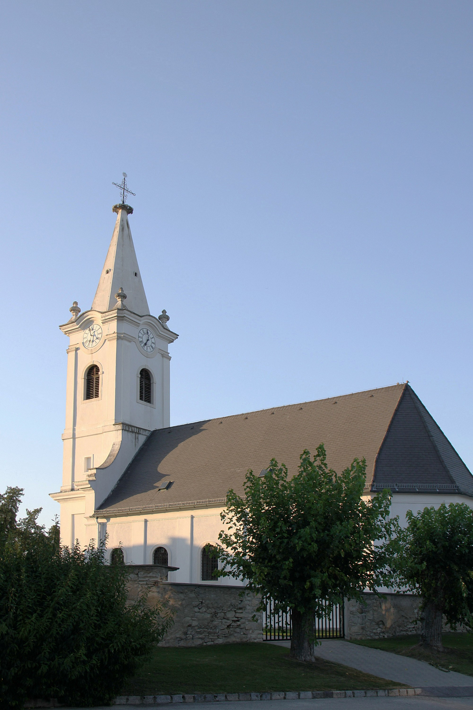 Parish church holy Petrus and Paulus - Baumgarten Object location47° 44′ 09.4″ N, 16° 30′ 07.49″ E